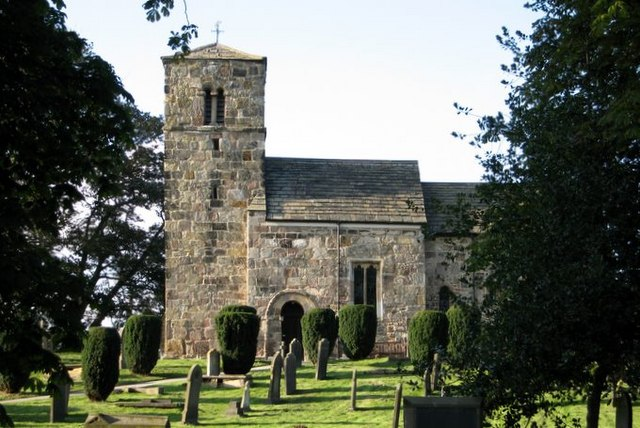 Saint John the Baptist's Church, Kirk Hammerton, North Yorkshire, dates from Anglo-Saxon times